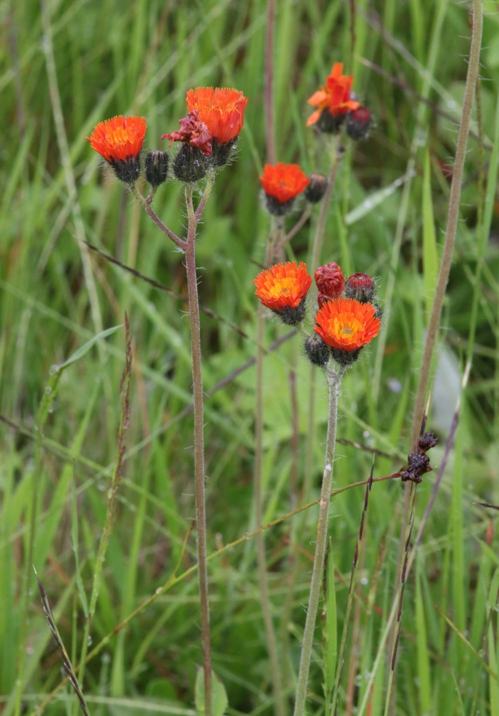 Flowering Pilosella blyttiana, Krkonoše Mountains, Czech Republic